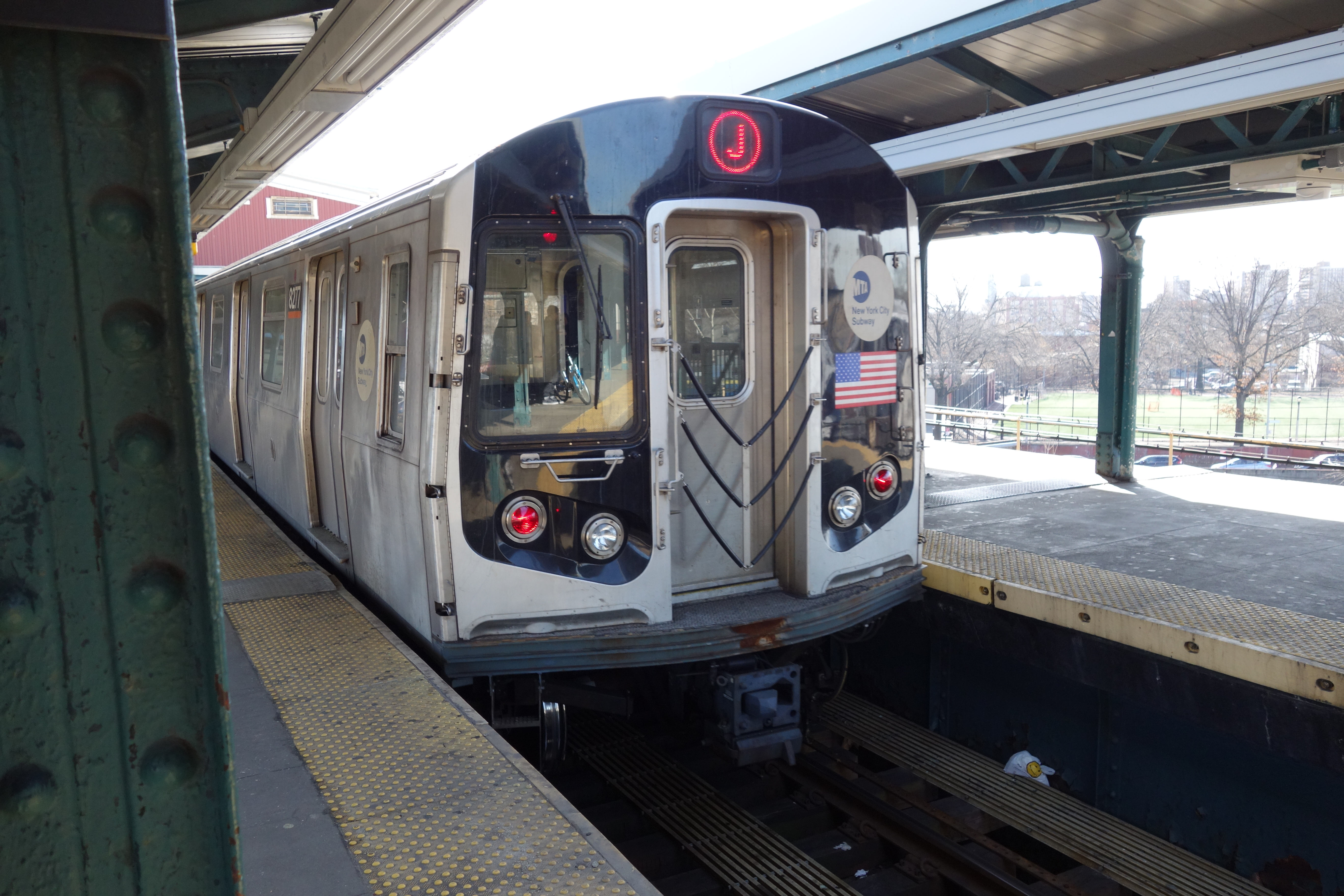 A Queens-bound J express train leaving the...Manhattan-bound platform of the Broadway Junction BMT Jamaica station in East New York, Brooklyn. The Queens-bound platform was closed for construction.